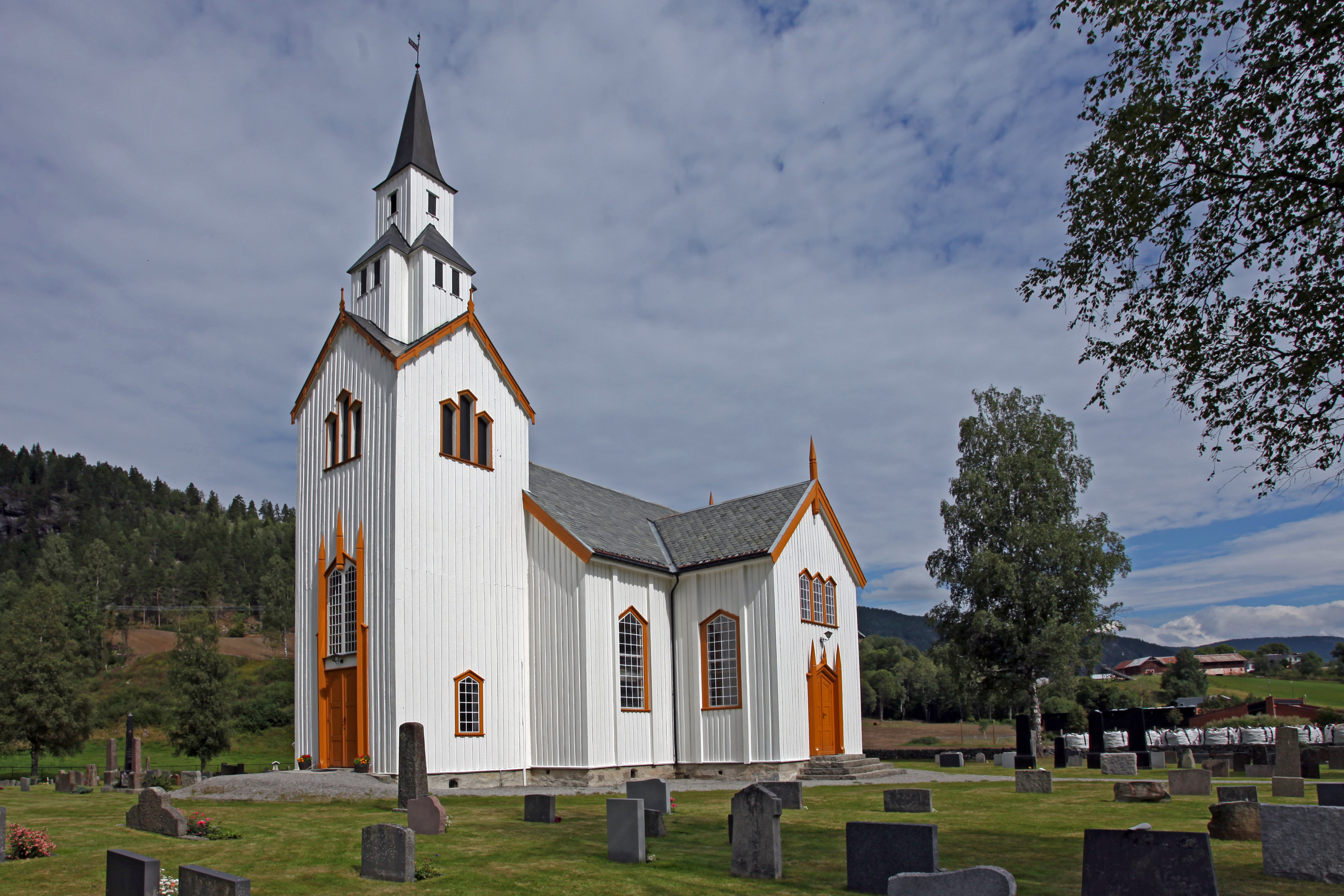 Picture of Sauland church (Telemark - Norway)